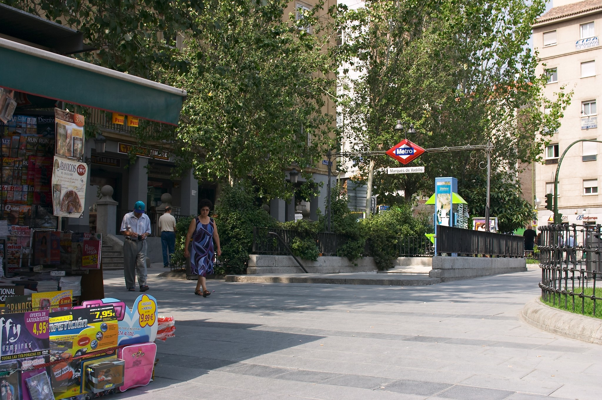 Madrid Metro, Marqués de Vadillo station.